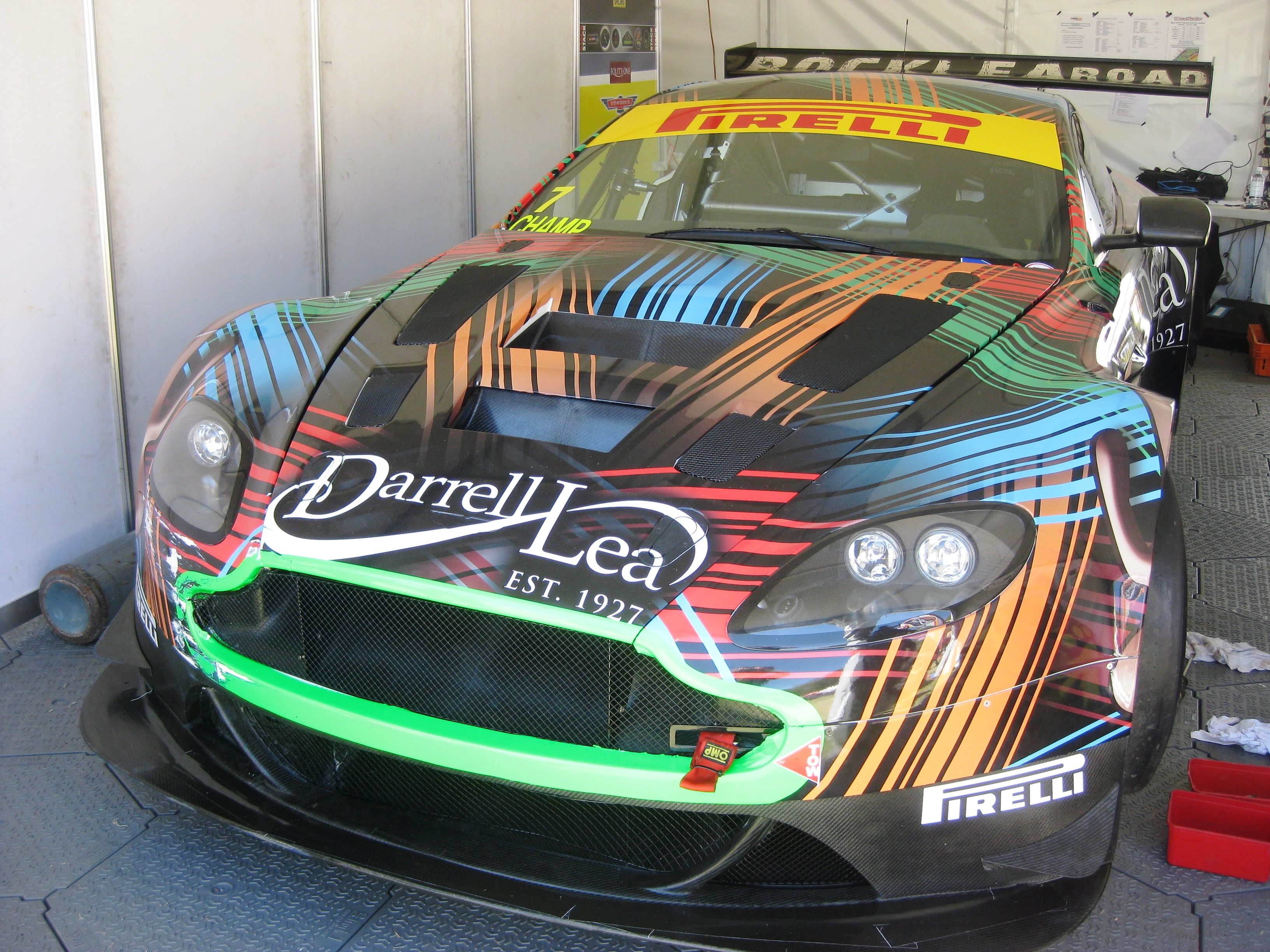 Aston Martin Vantage of Tony Quinn at the Adelaide round of the 2013 Australian GT Championship